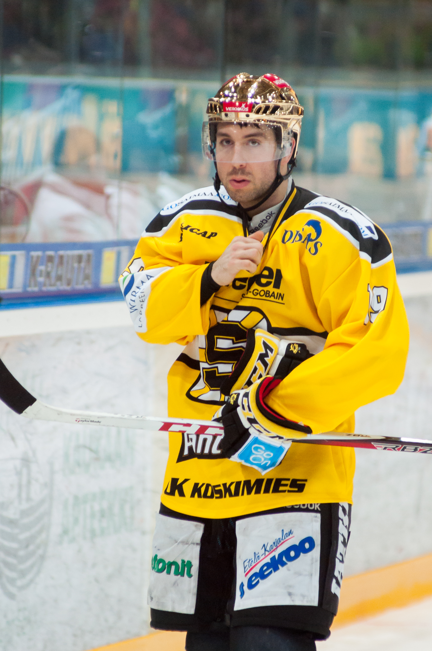 Ice hockey forward Stefano Giliati of SaiPa Lappeenranta playing against Oulun Kärpät in Lappeenranta, Finland.